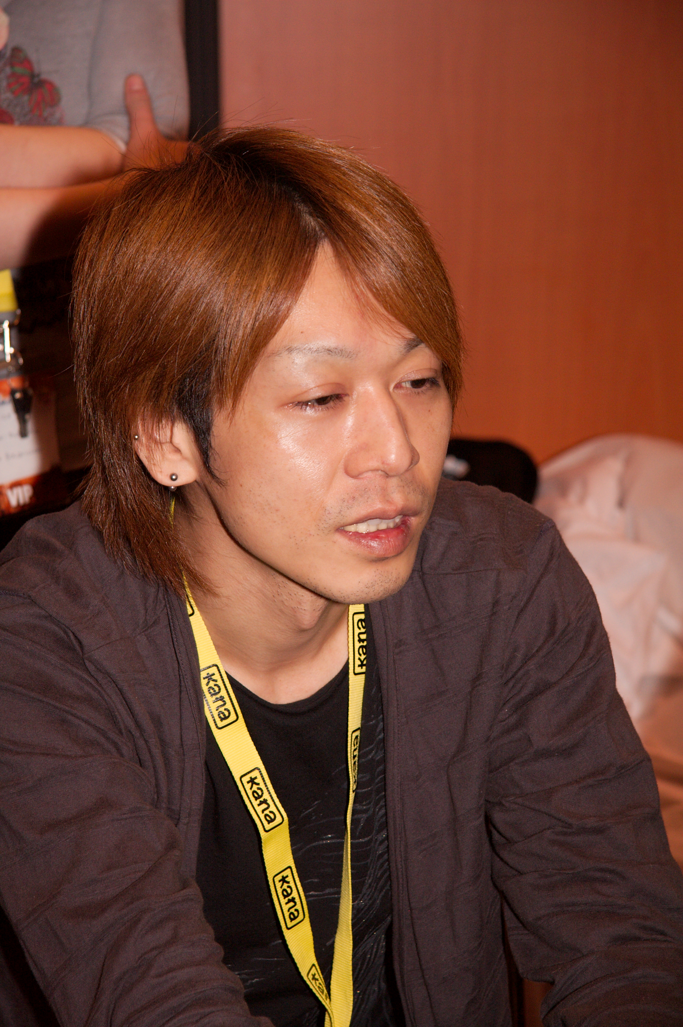 Autograph session with Plastic Tree at Chibi Japan Expo 2007 (Paris, France).